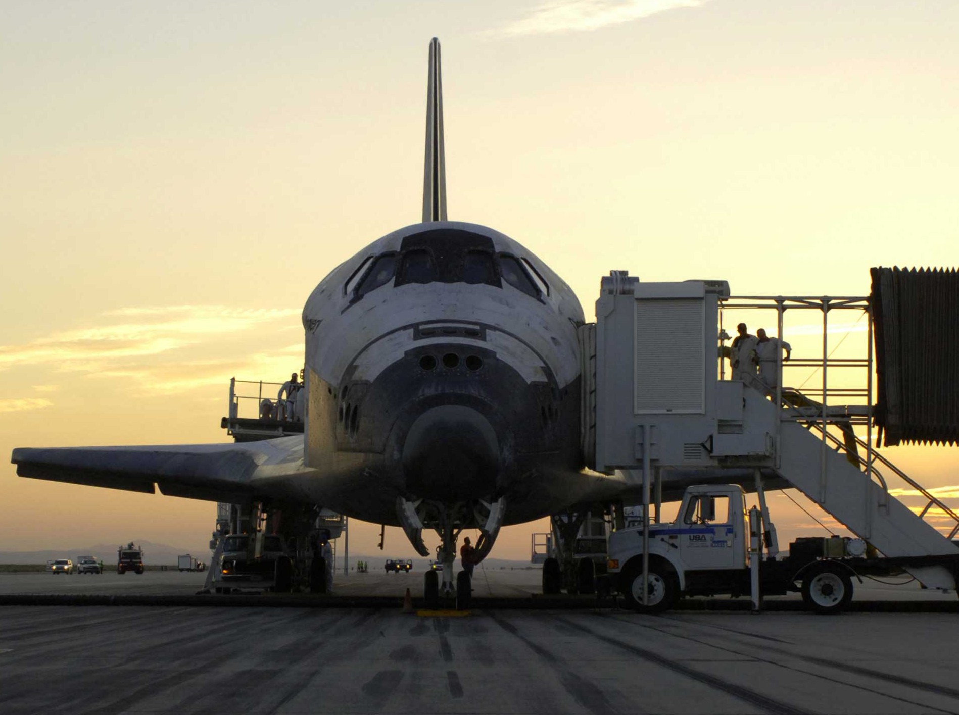 Discovery safe back at landing strip. Cropped and other Orientation.